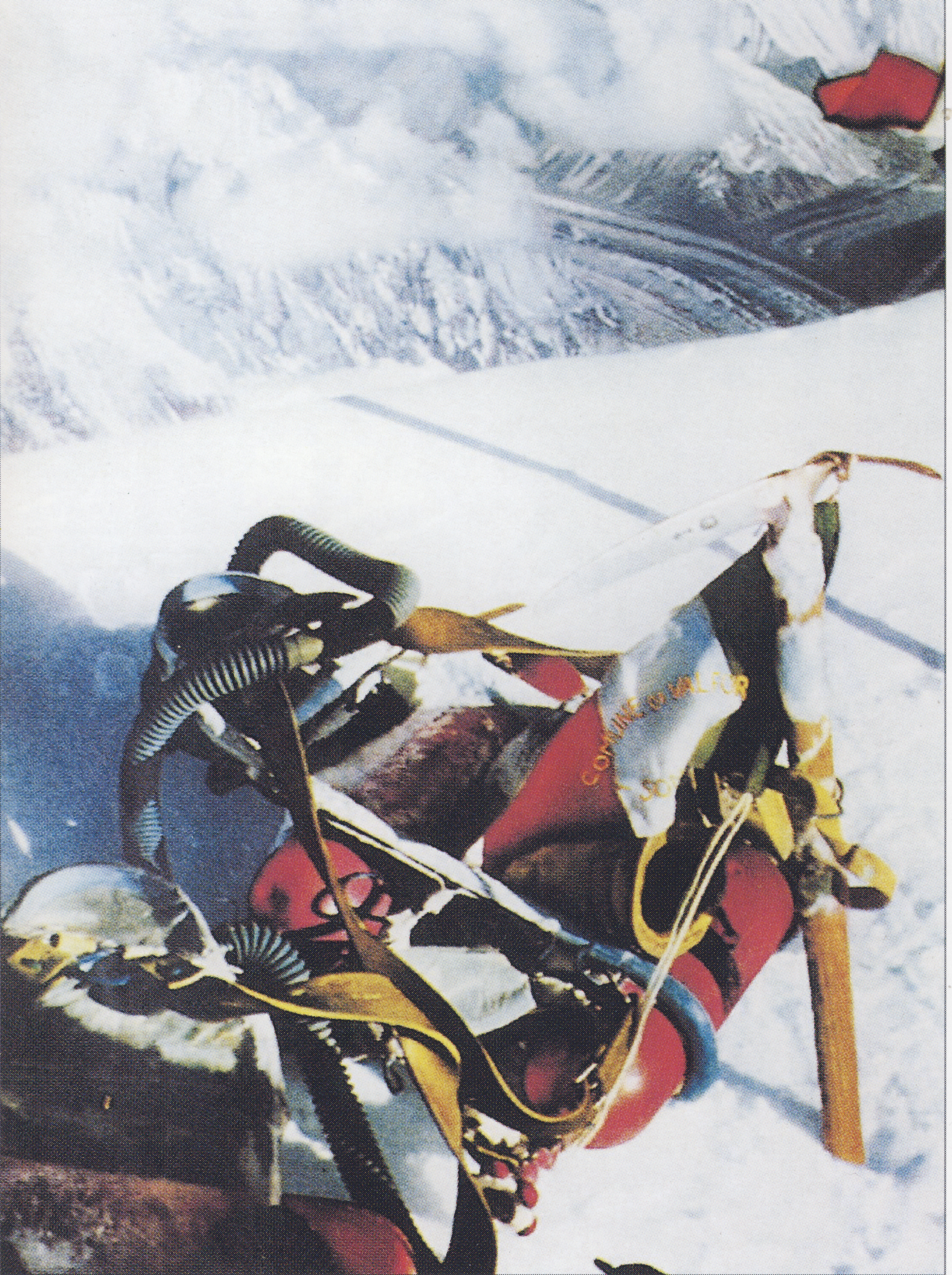 Picture taken on K2 summit, italian K2 expedition 1954